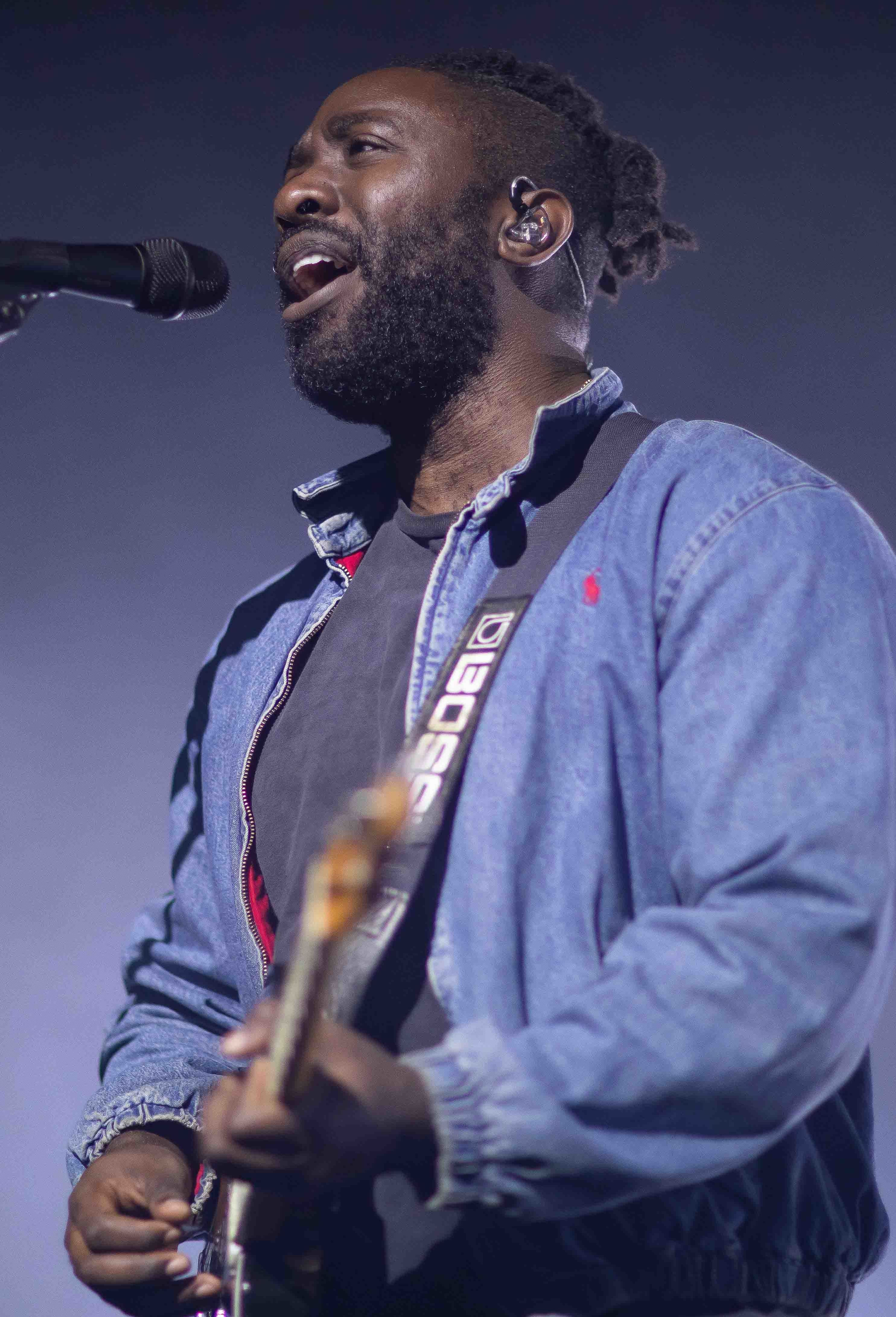 Musician Kele Okereke performing at Sydney's Hordern Pavilion in November 2018.